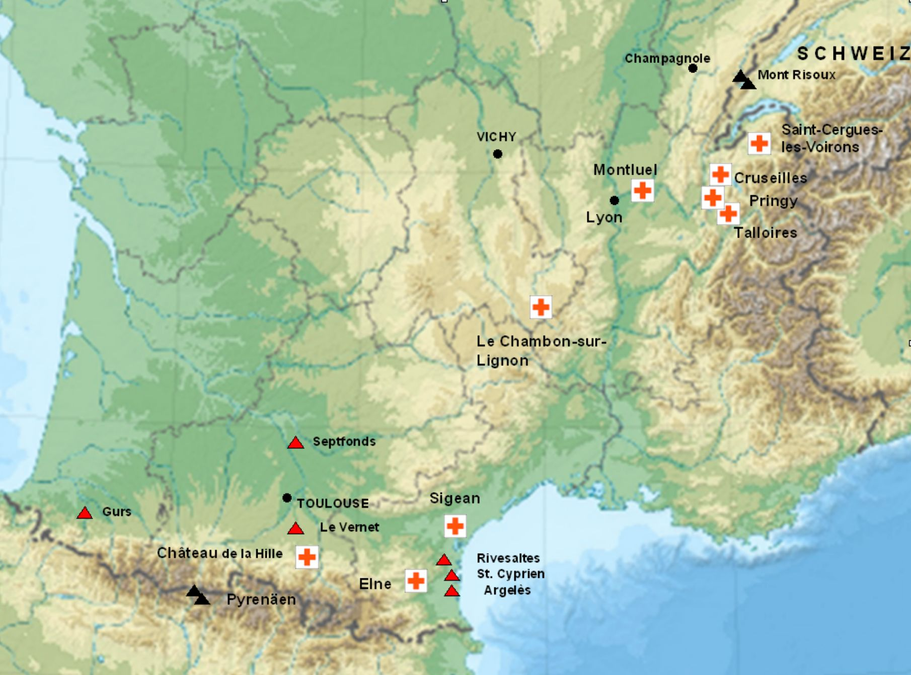 Kinderheime der Schweizerischen Arbeitsgemeinschaft für kriegsgeschädigte Kinder (SAK)